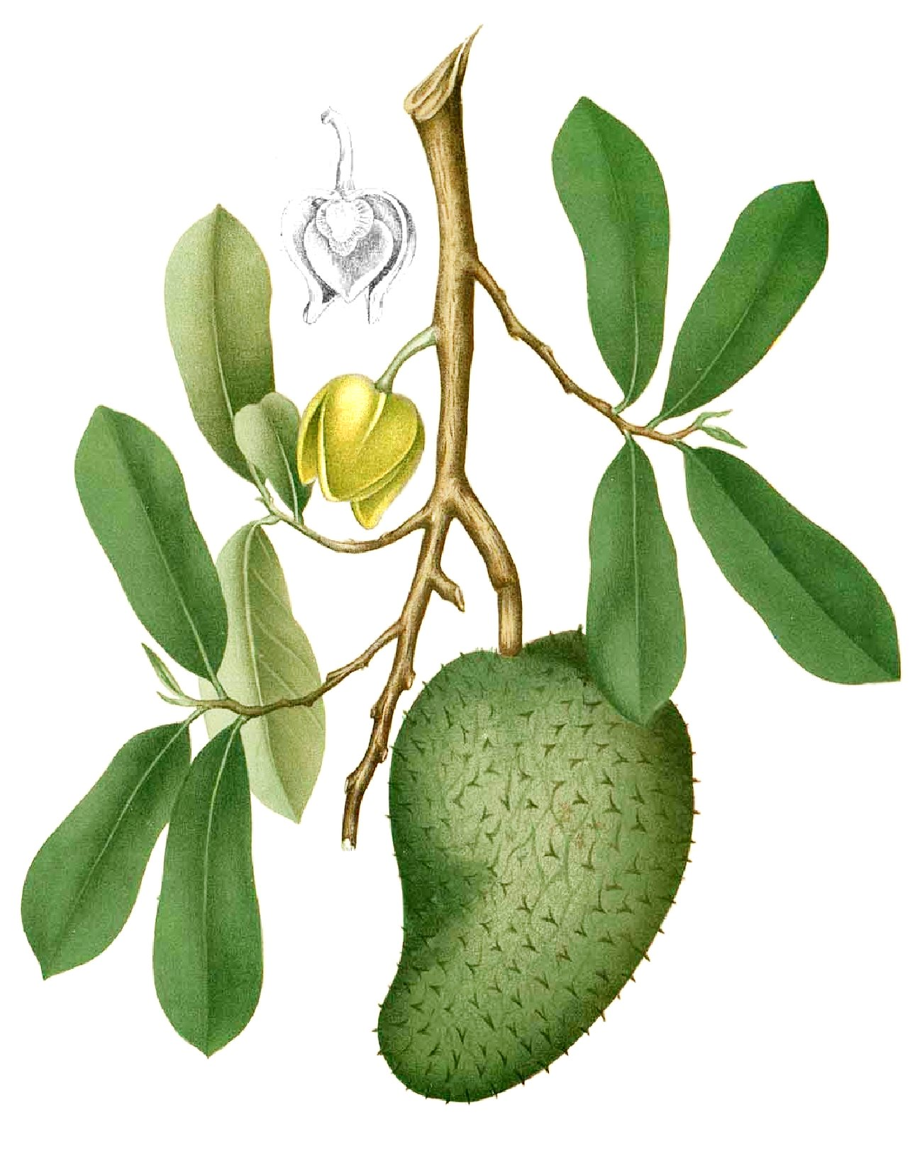 Plate from book